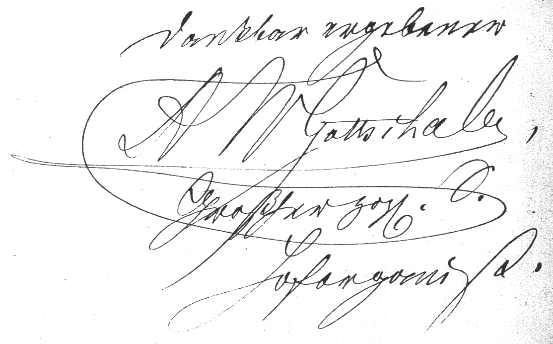 signature of A. W. Gottschalg, German organist and organ expert